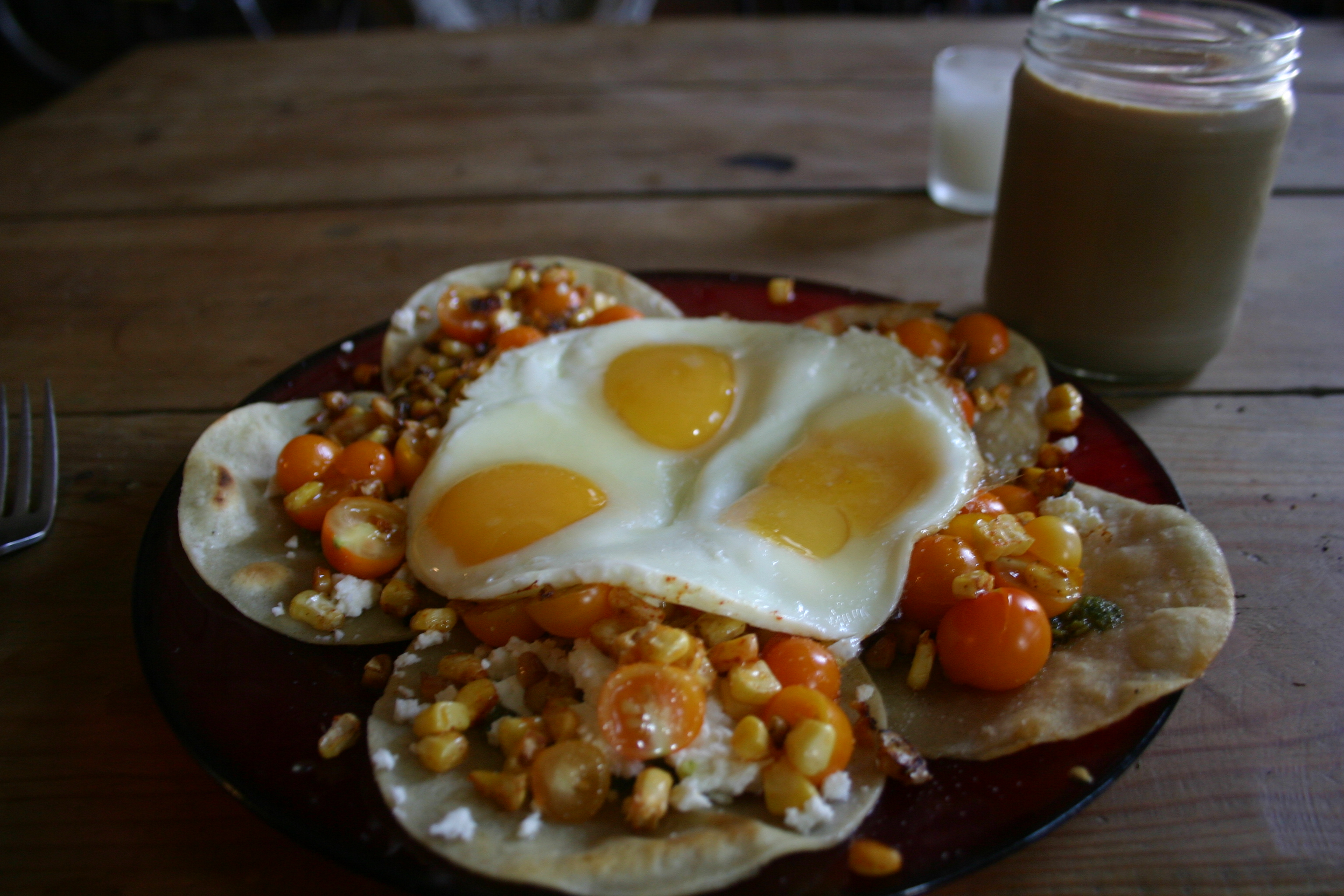 Cherry Tomatos and Summer corn salsa with black beans and feta. Served with garden of Eve Organic eggs. Officialy adicted to farm fresh, free range eggs. Coffee.